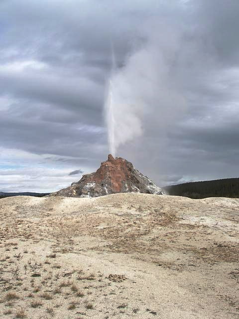 White Dome Geyser, Yellowstone National Park Photo by Richard Ellis